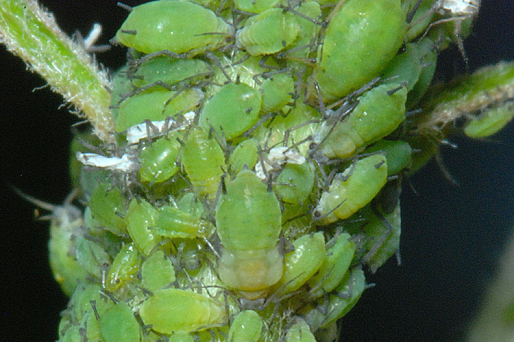 Aphis pomi colony on crab apple in East Sussex.